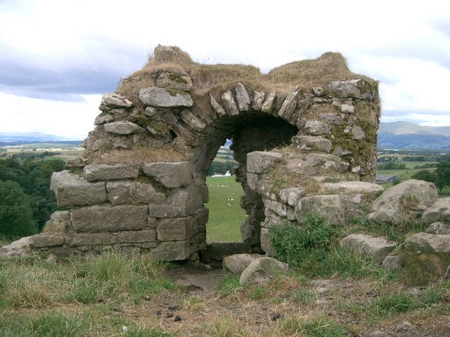 Killernie Castle. The ruins of Killernie Castle sit at the southwest extremity of Saline Hill. The castle was once known as the Castle of Balwearie. It was owned by the Scotts of Balwearie, one of whom was Sir Michael Scott, renowned knight and wizard. The ruins now consist only of fragments of two towers, of which the southern is said to be the more recent, bearing the date 1592.